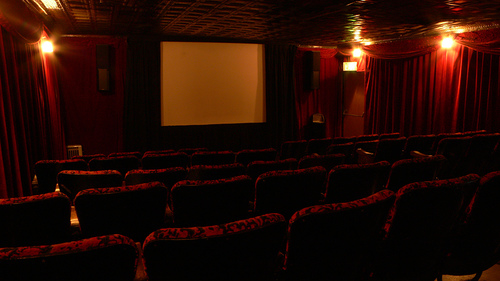 Interior of Grand Illusion Cinema, University District, Seattle, Washington, USA circa 2006. Photograph by Brian Alter